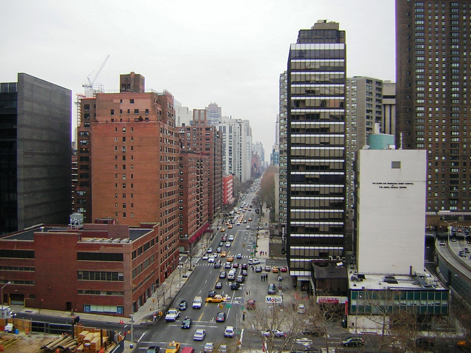 Looking north and down on York Avenue from high above 59th St on the North Outer Roadway of Queensboro Bridge on a cloudy winter afternoon. White building on right is Bobst Hospital of Animal Medical Center.